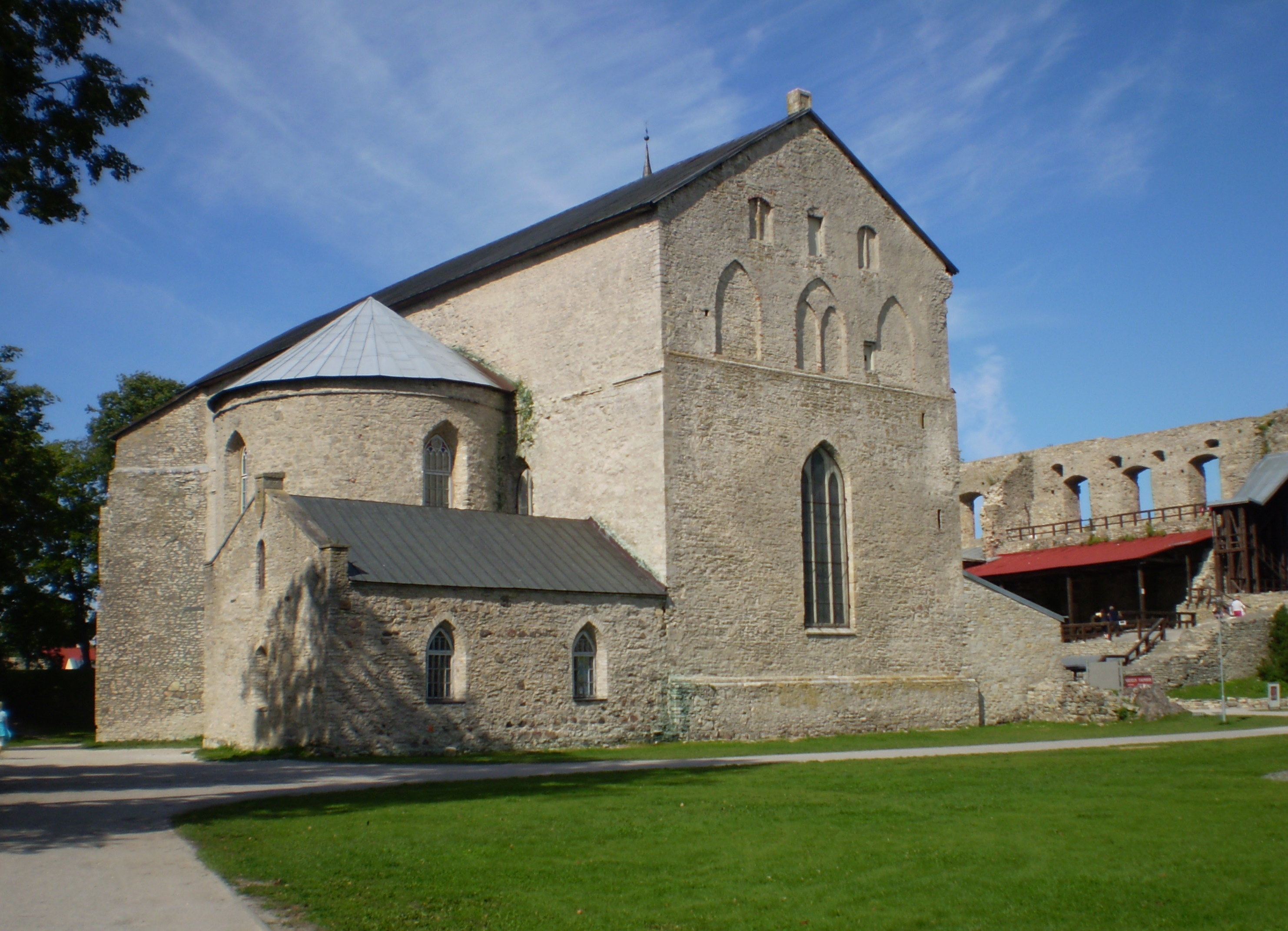 Haapsalu Episcopal castle.